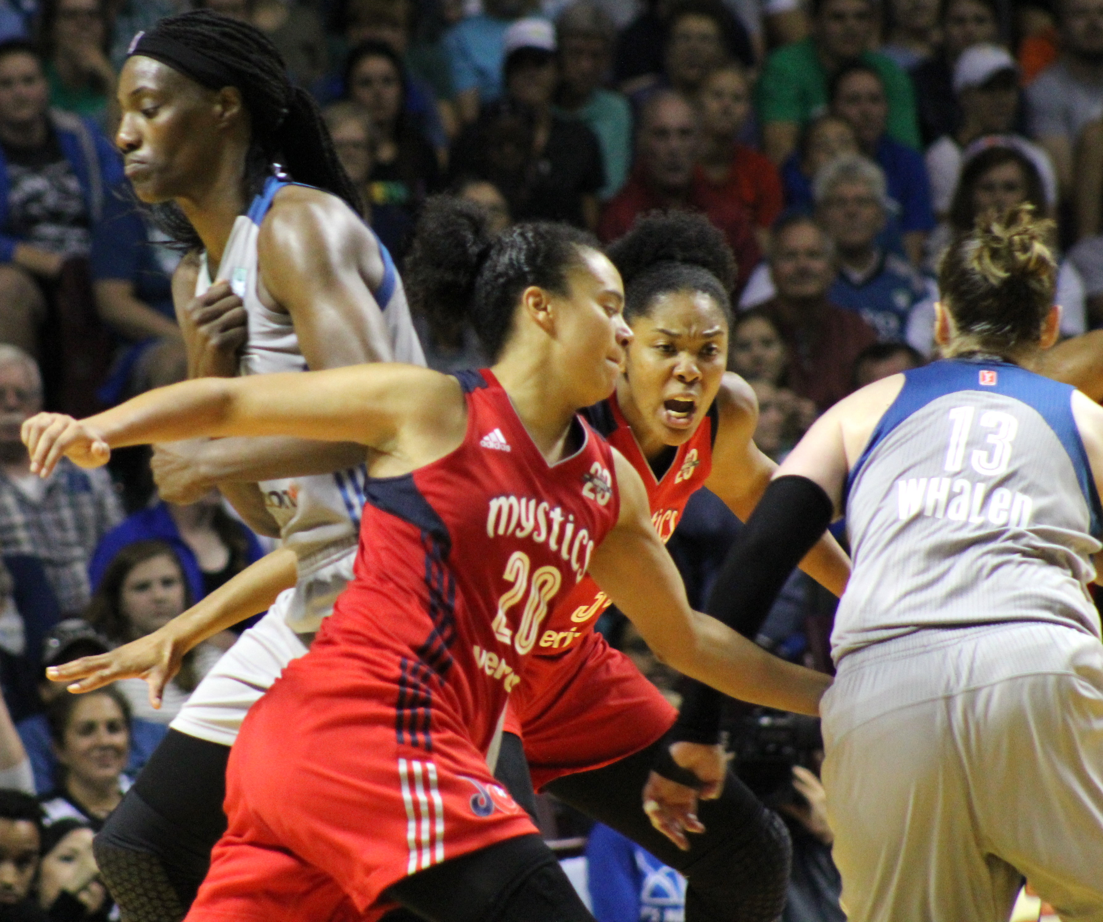 Kristi Toliver attempts a steal from Lindsay Whalen in 2017 (left to right, Fowles, Toliver, Thomas, Whalen)